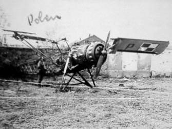 Wreck of a polish RWD 14 Czapla observation plane.